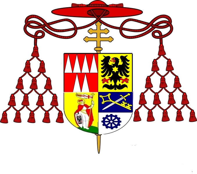 Coat of arms of František Saleský Cardinal Bauer - Archbishop of Olomouc (1904-1915)